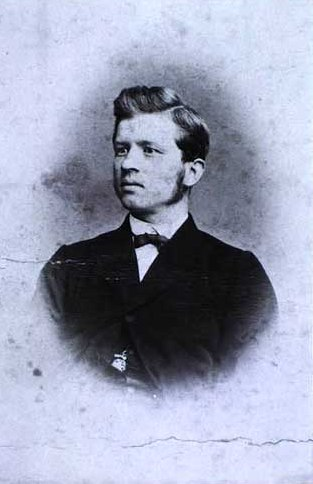 Danish statistician, economist and politician, MP Vigand Andreas Falbe-Hansen (1841-1932)